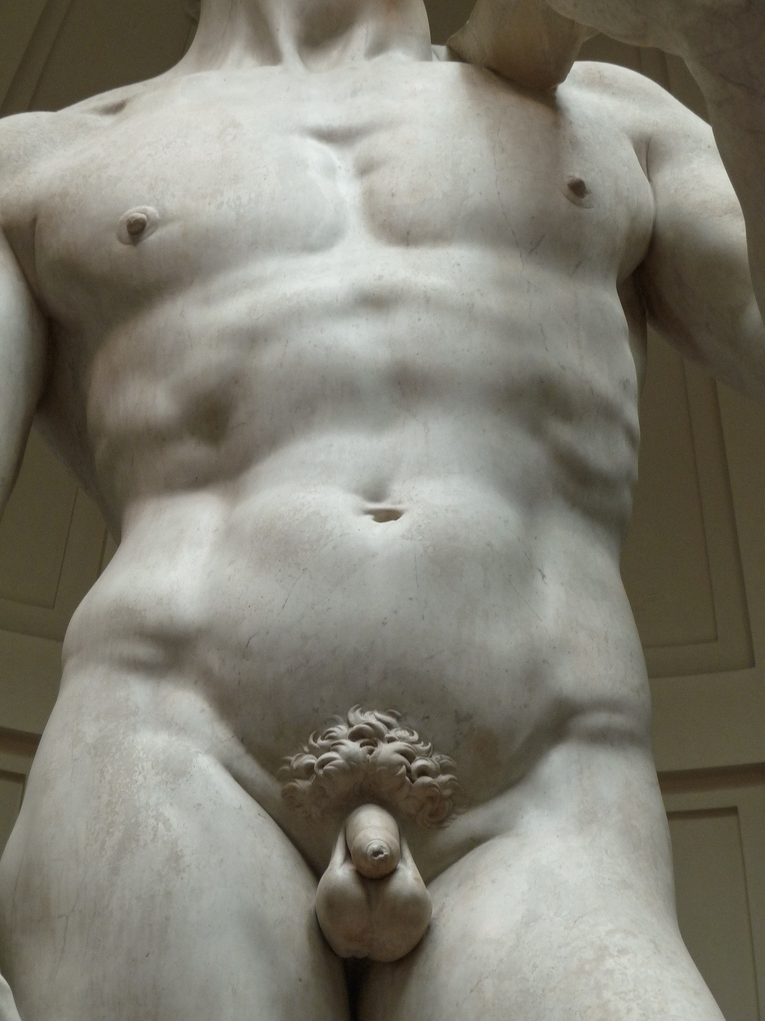 Michelangelo's David, 1501-1504, Galleria dell'Accademia (Florence)